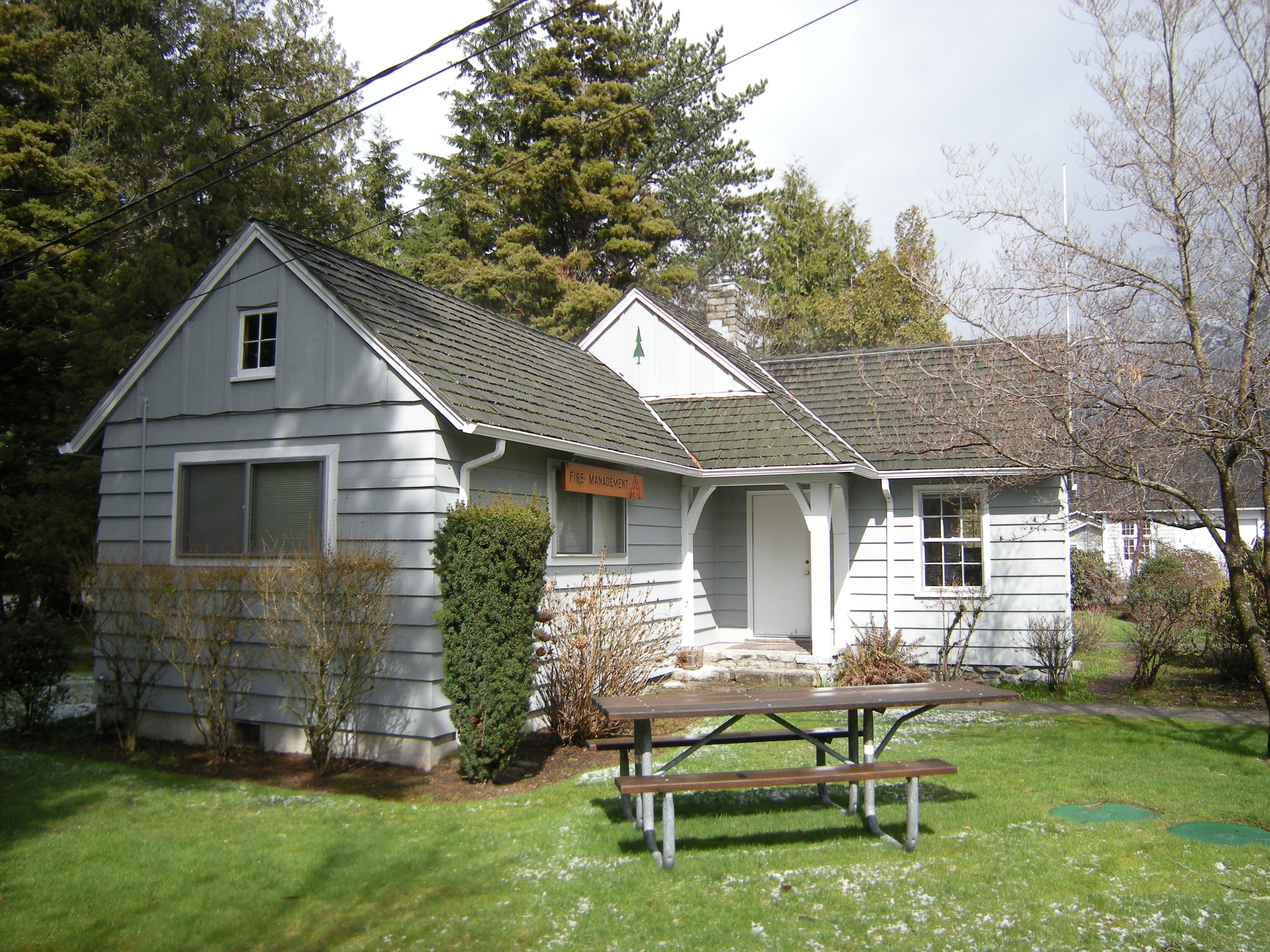 North Bend Ranger Station (now officially Snoqualmie Ranger Station), North Bend, Washington, USA. The complex of buildings is on the National Register of Historic Places.